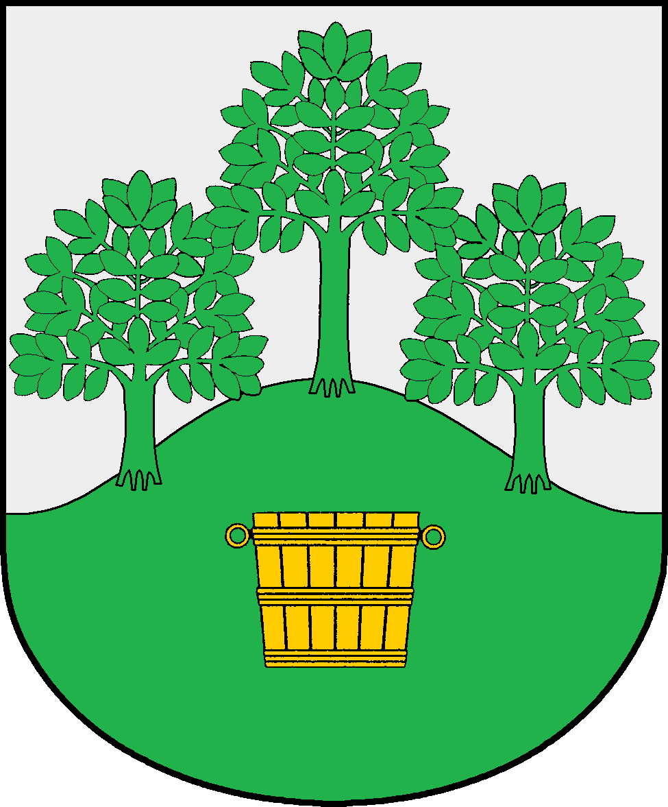 Coat of arms of the municipality Thaden in Schleswig-Holstein, Germany.